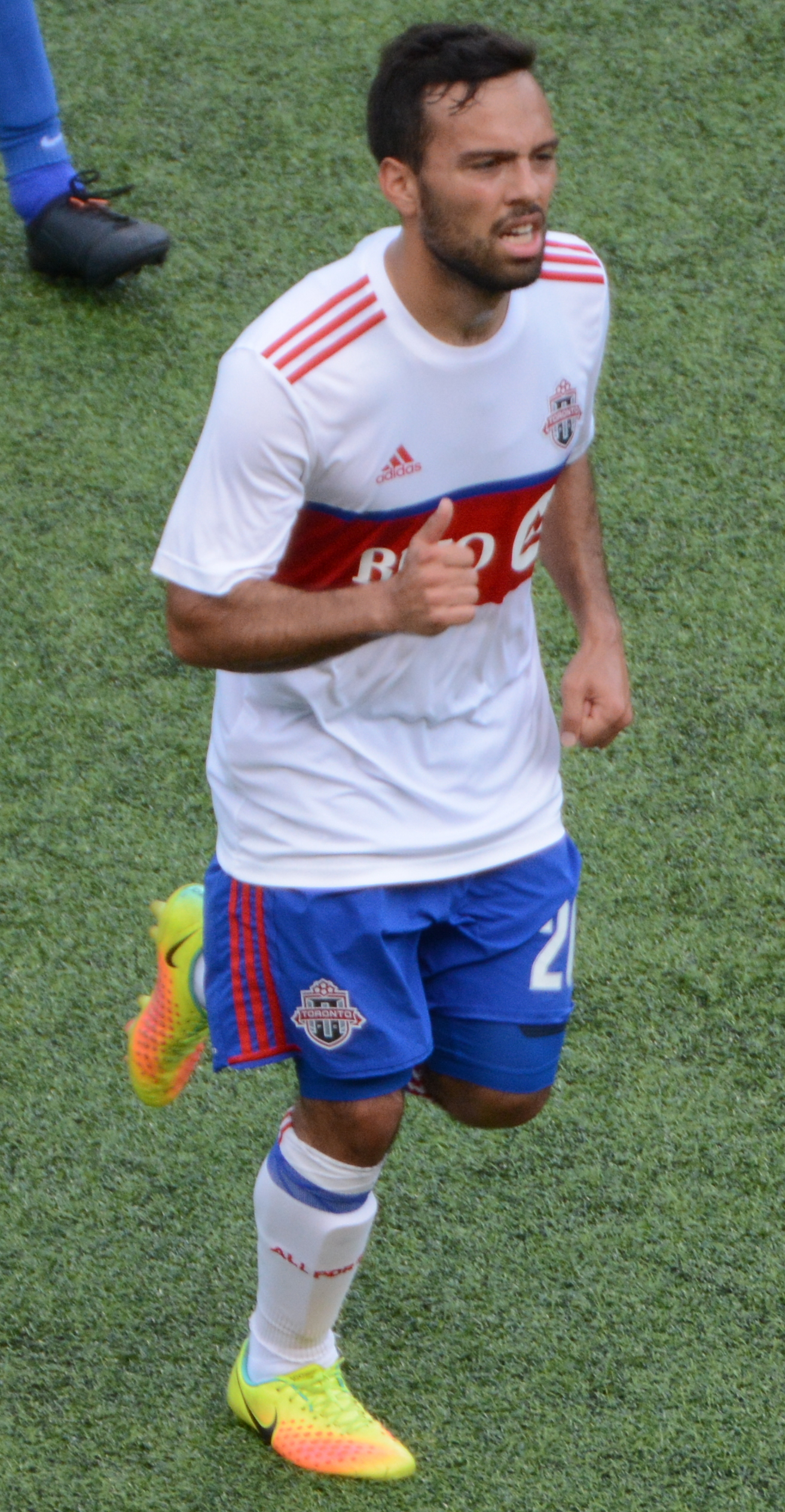 Sergio Camargo Taken during a match between FC Cincinnati and Toronto FC II at Nippert Stadium in Cincinnati, USA on May 27, 2017.